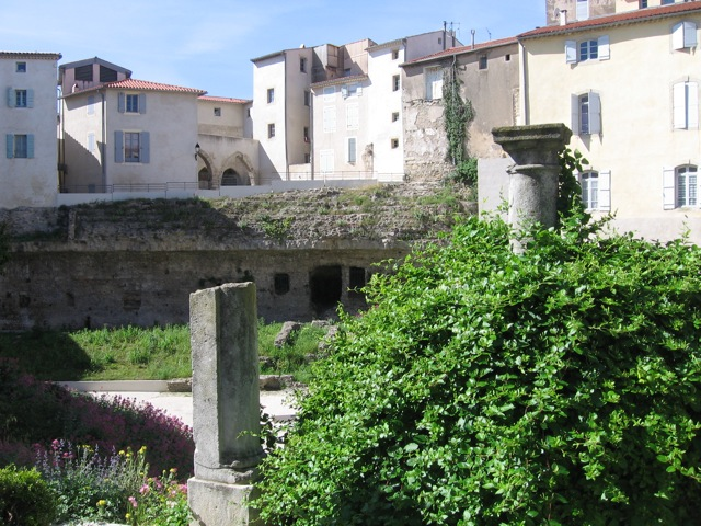 View of the Roman amphitheatre site, Béziers, from the north